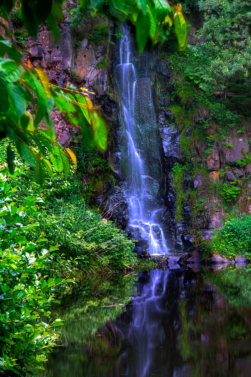 Waterfall at Christerode(Knüll), Germany. A human build waterfall. The height ist about 7m.